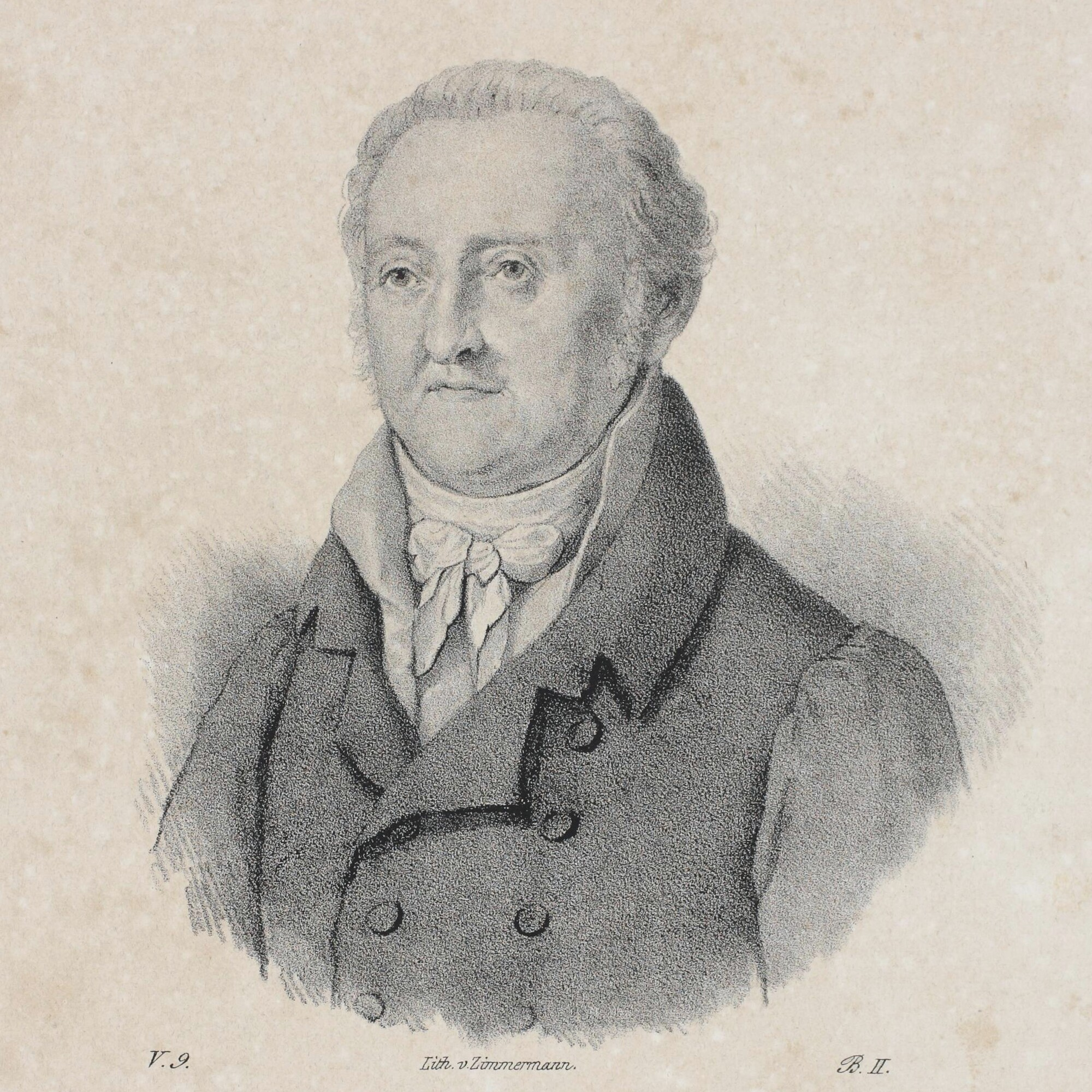 The image of German composer Johann Gottfried Schicht (1753-1823)